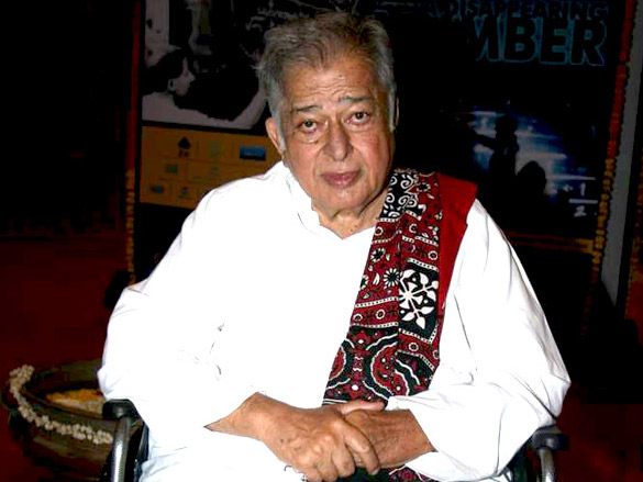 Shashi Kapoor at Complicate's 'A Disappearing Number' play